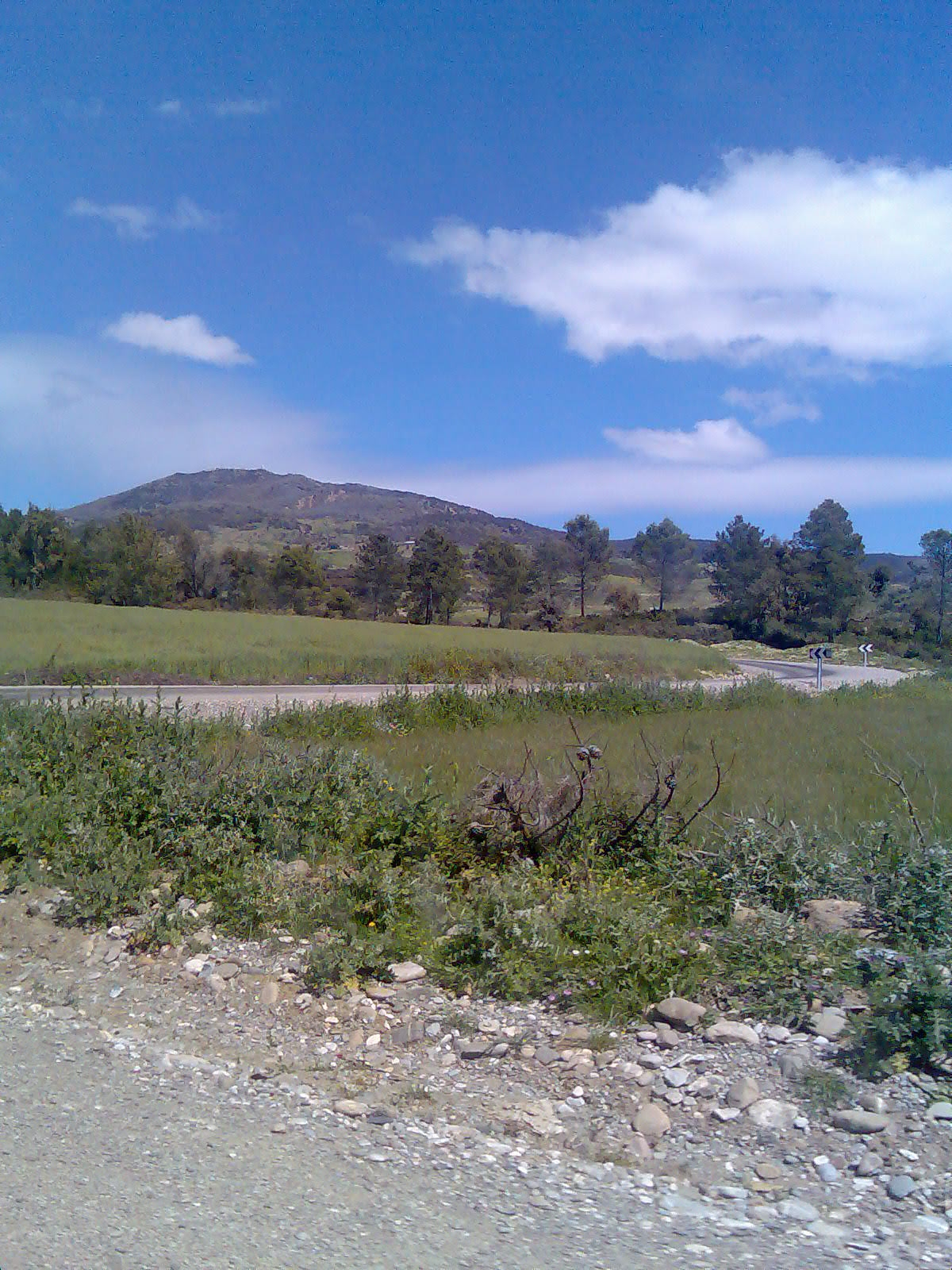 Landscape in Jebala, Morocco